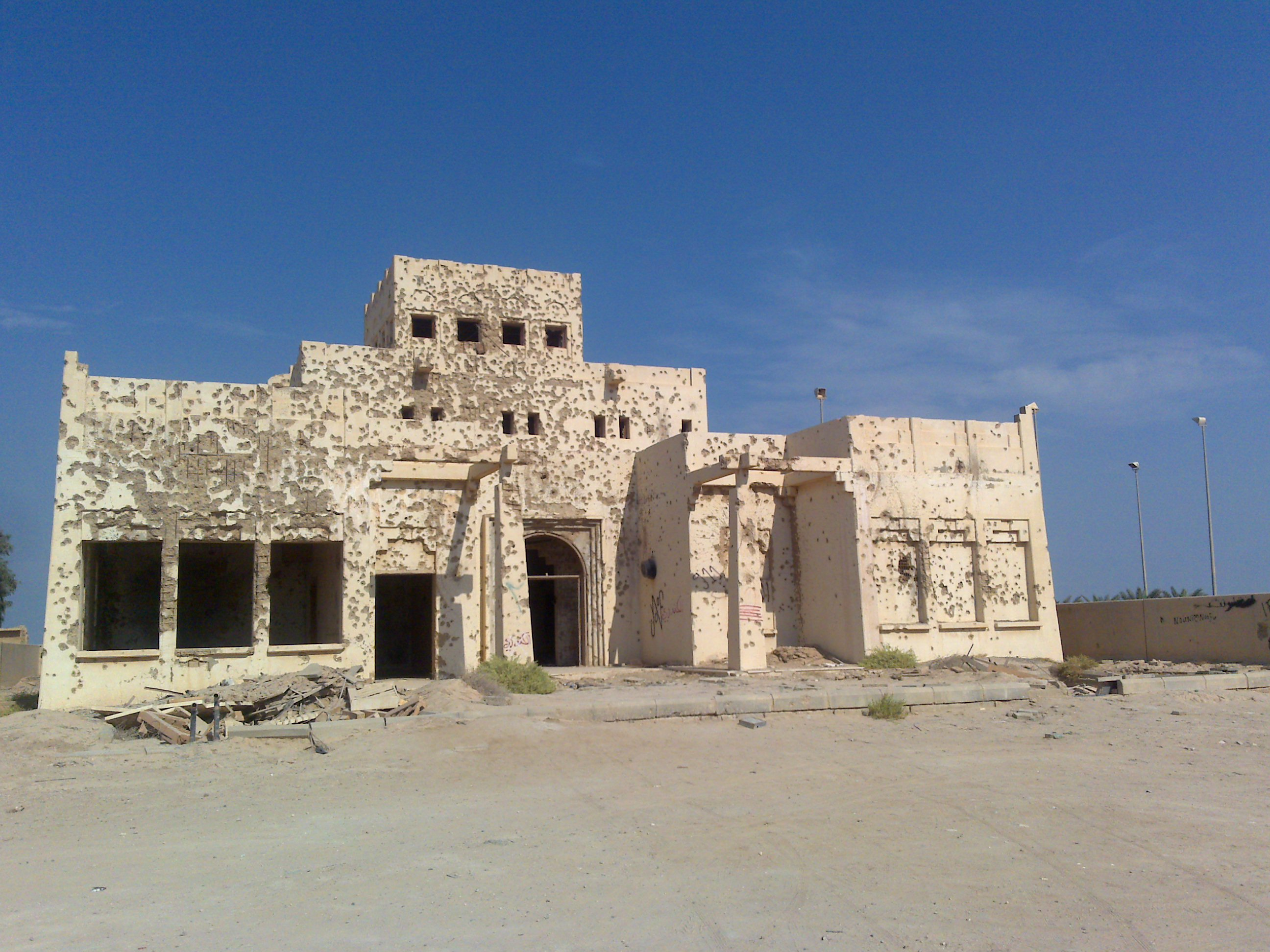 The bank building with bullet shot in Failaka Island